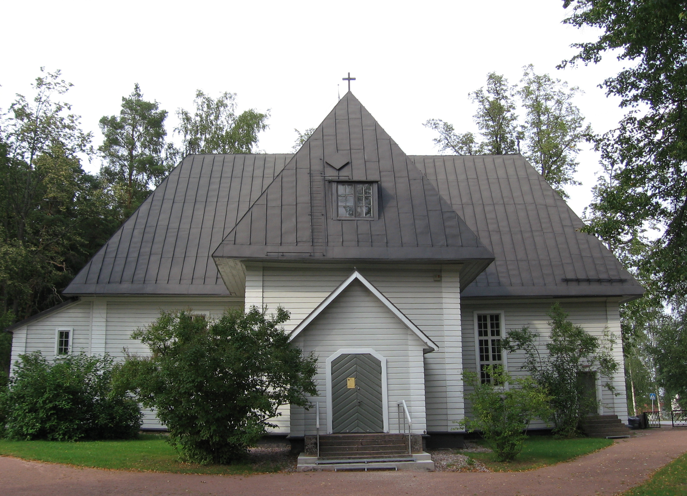 Anjala Church in Kouvola, Finland